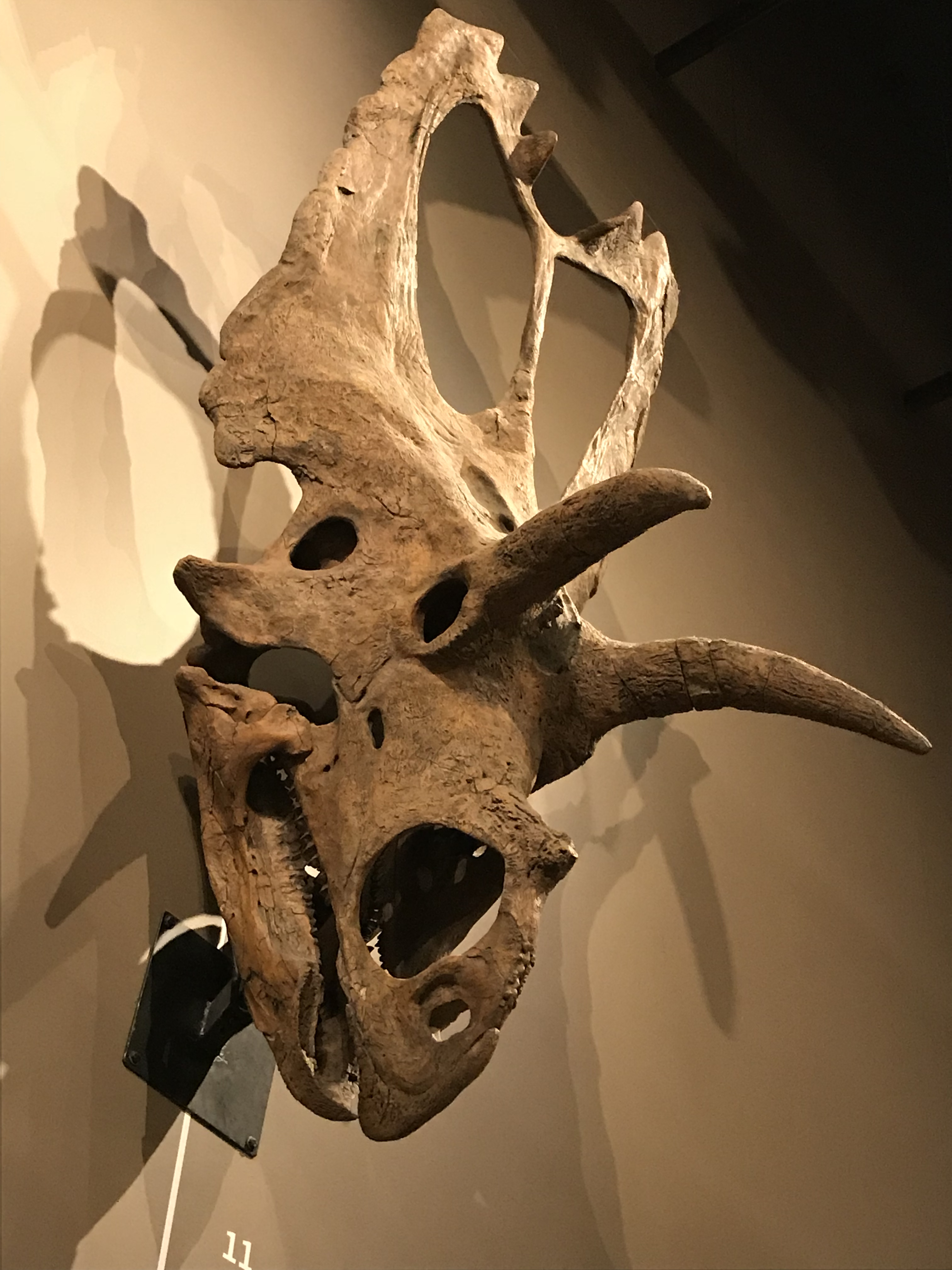 Coahuilaceratops